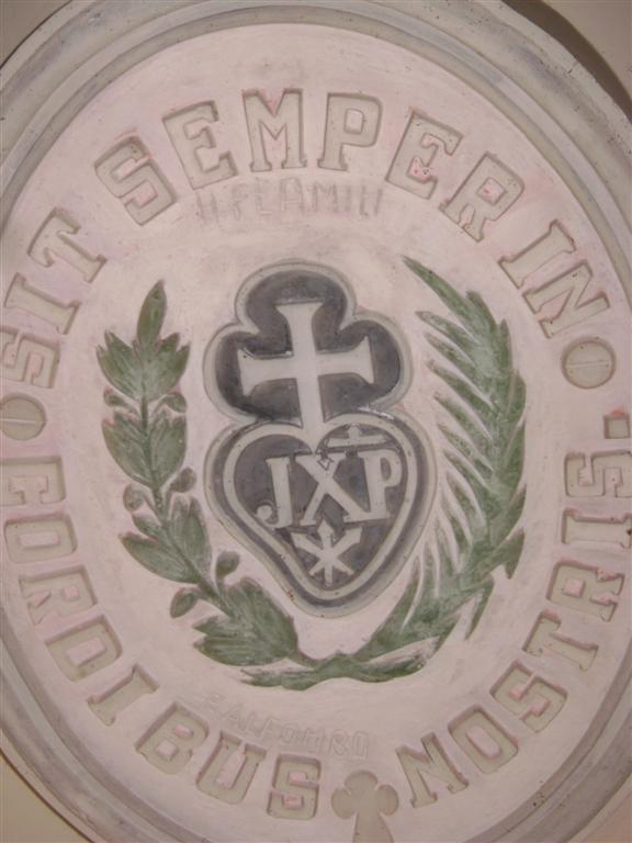 Passionist order